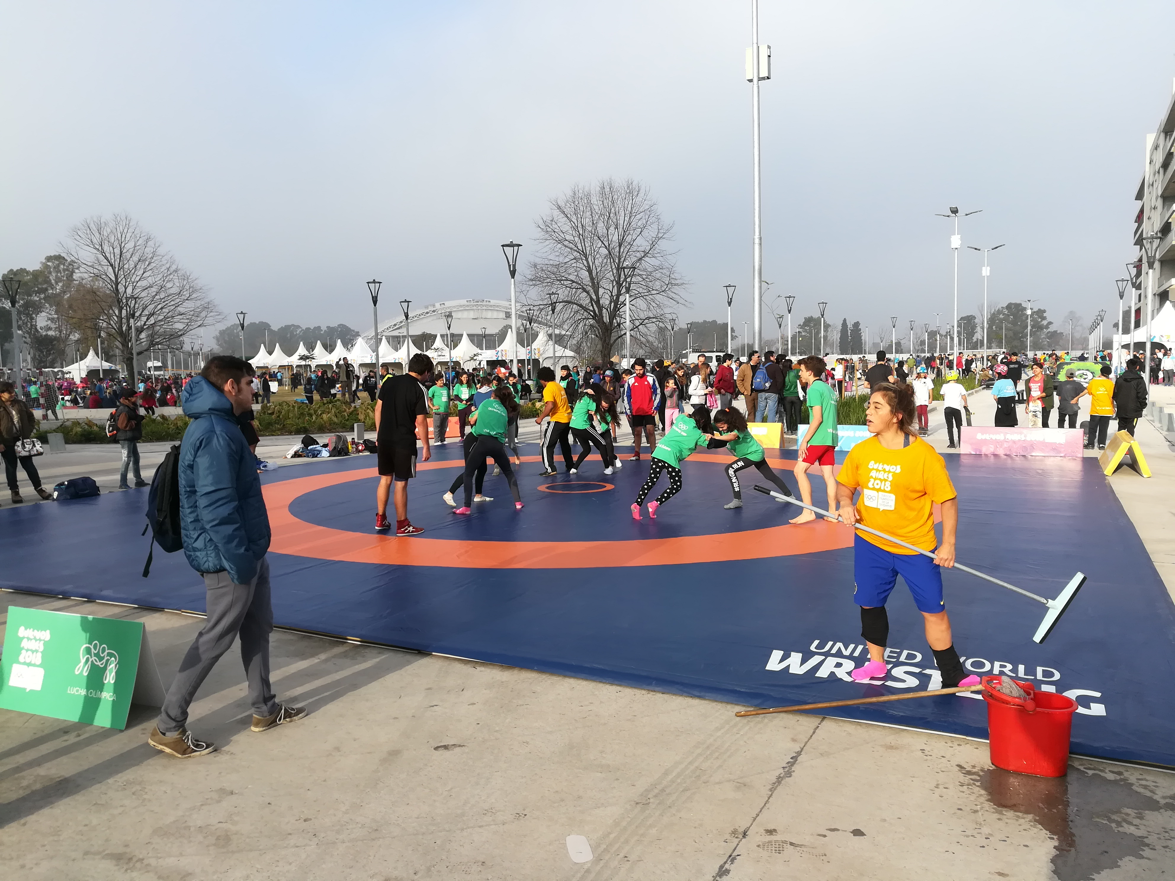 Freestyle wrestling at the Buenos Aires 2018 Olympic Day.